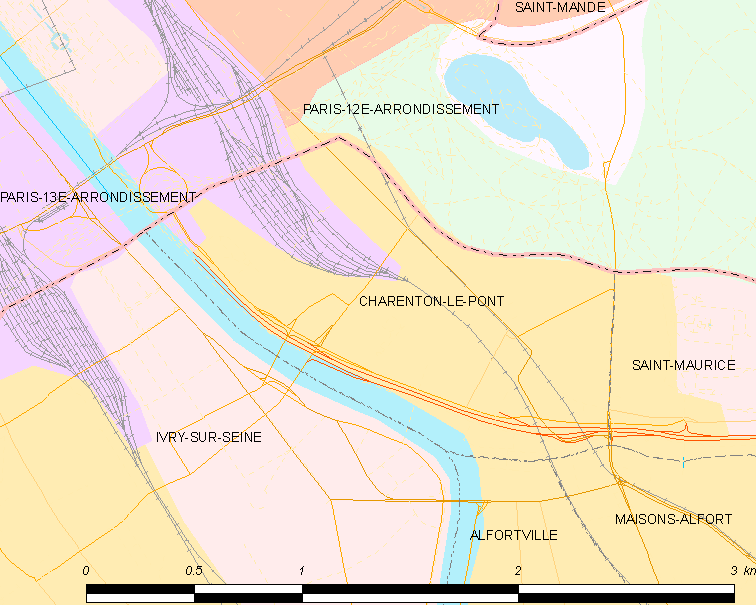 Map of French municipality Charenton-le-Pont